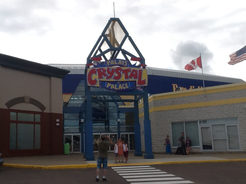 Crystal Palace in 2014